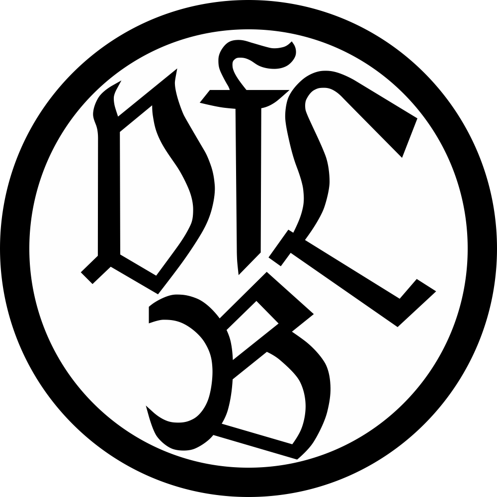 Logo of former german sport club VfL Bitterfeld (1911-1945)